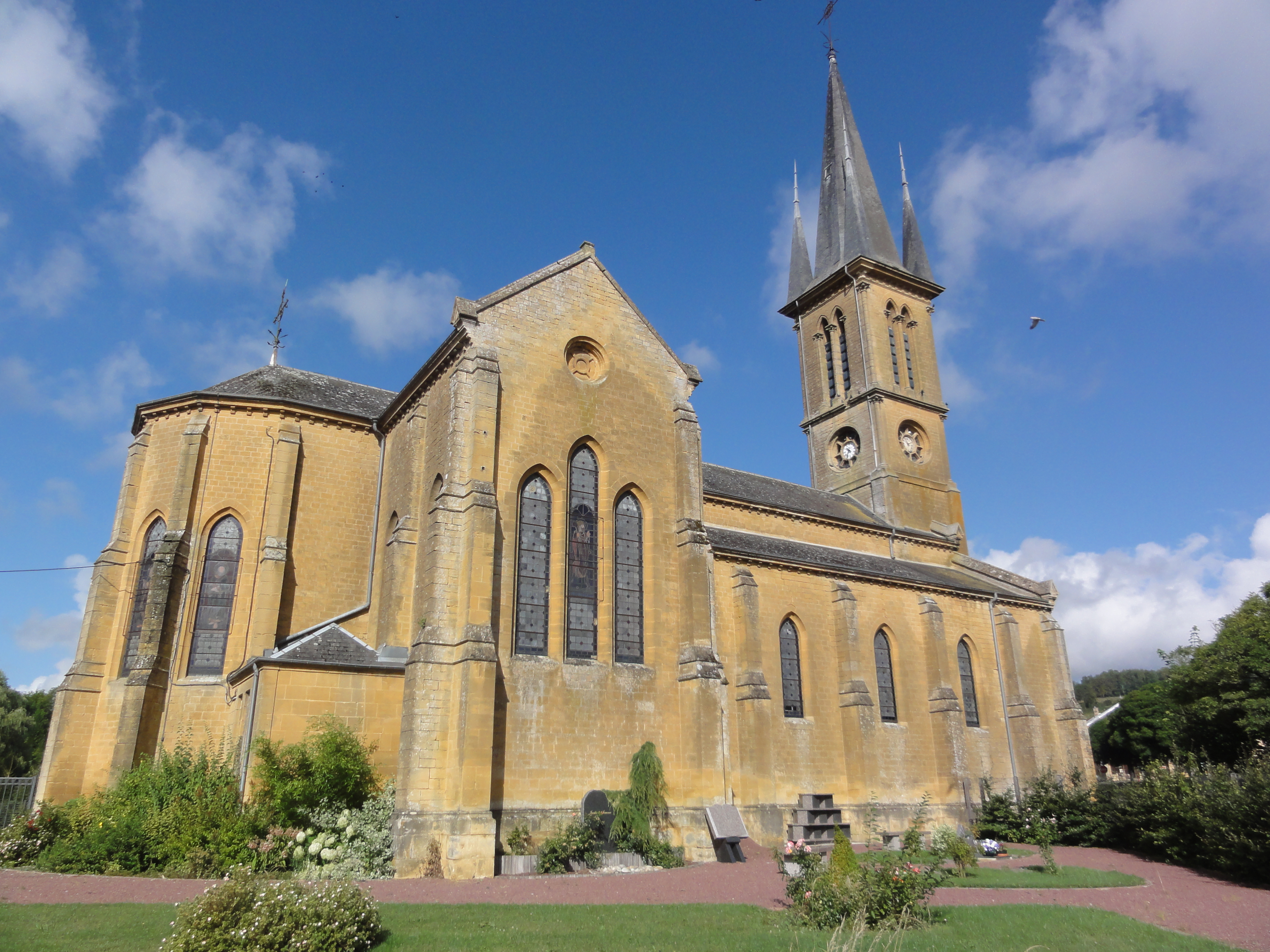 Neuville-lès-This (Ardennes) église, vue latérale